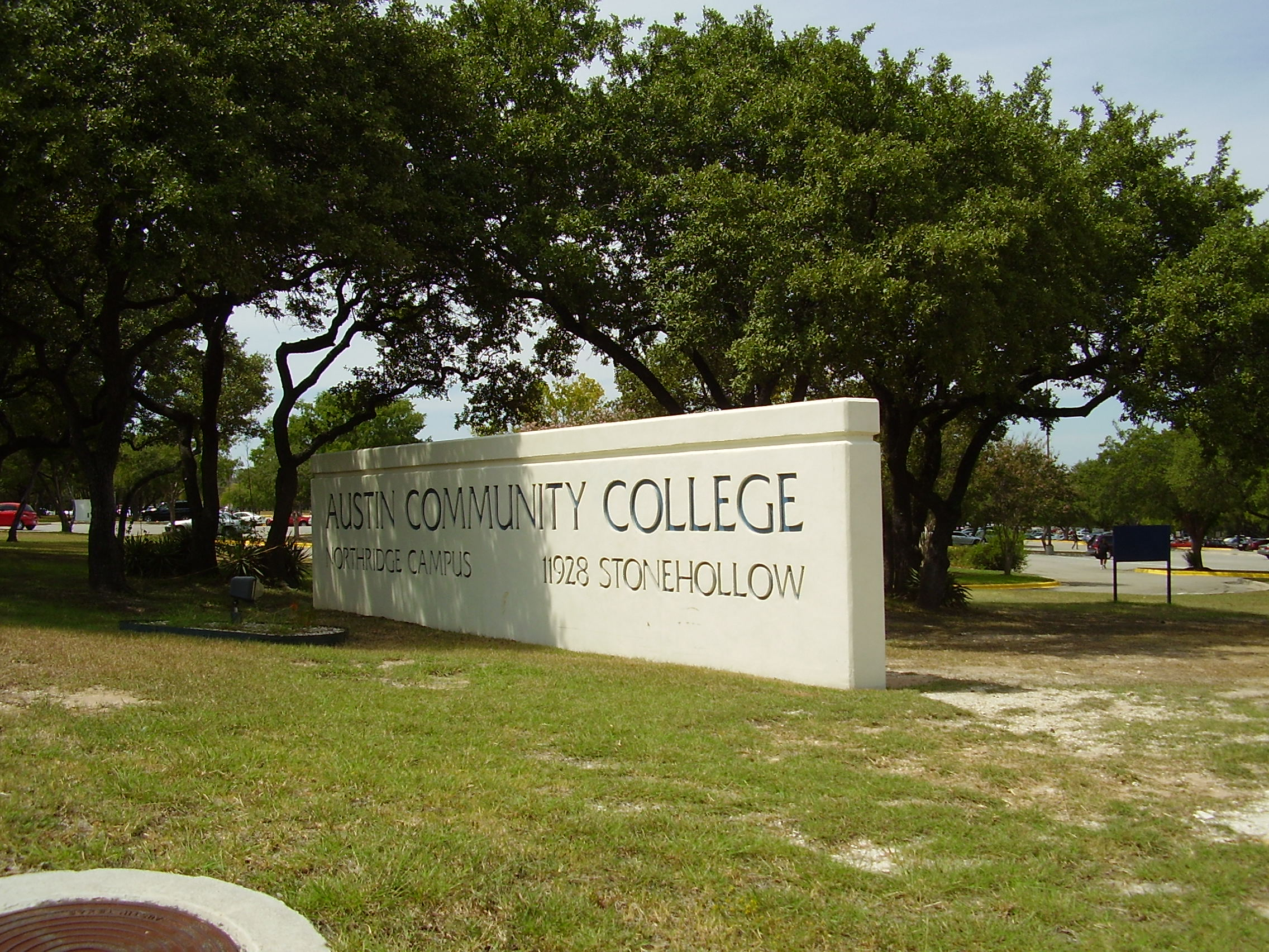 Austin Community College Northridge Campus